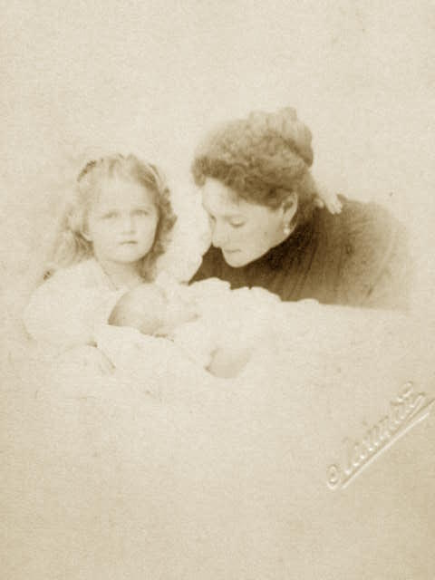 Russian Imperial Family Photo